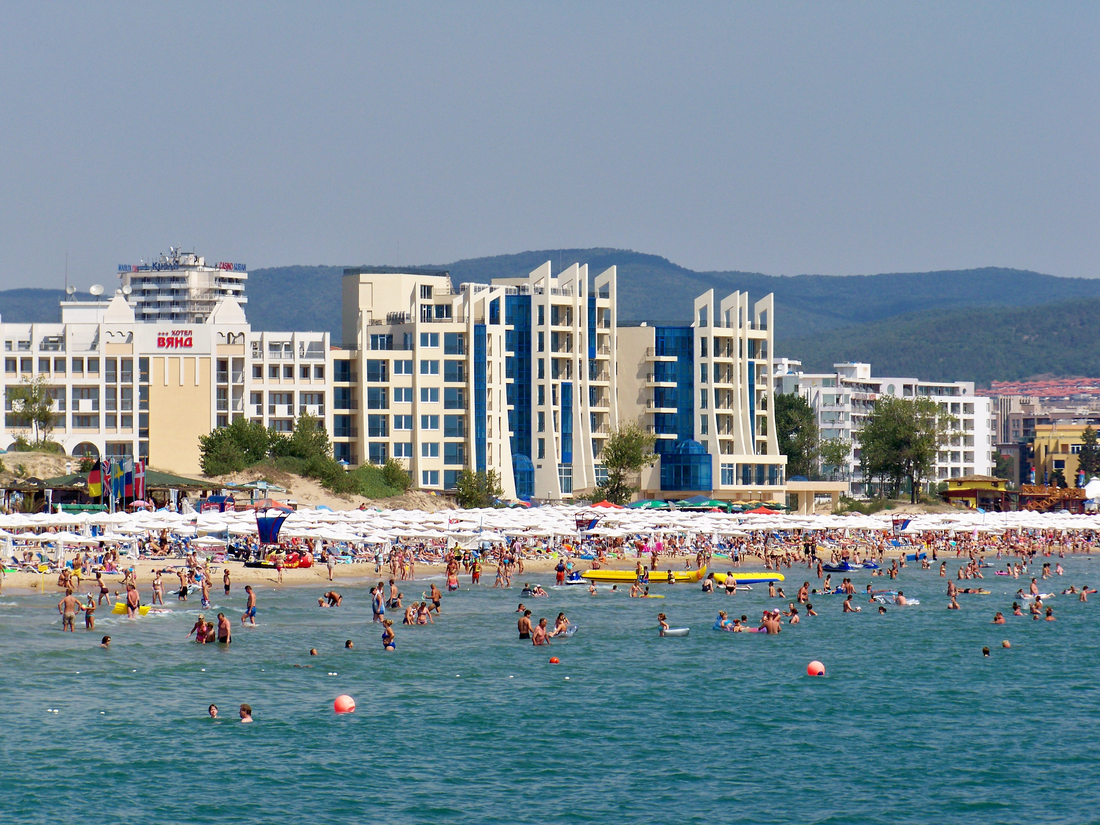 Sunny Beach